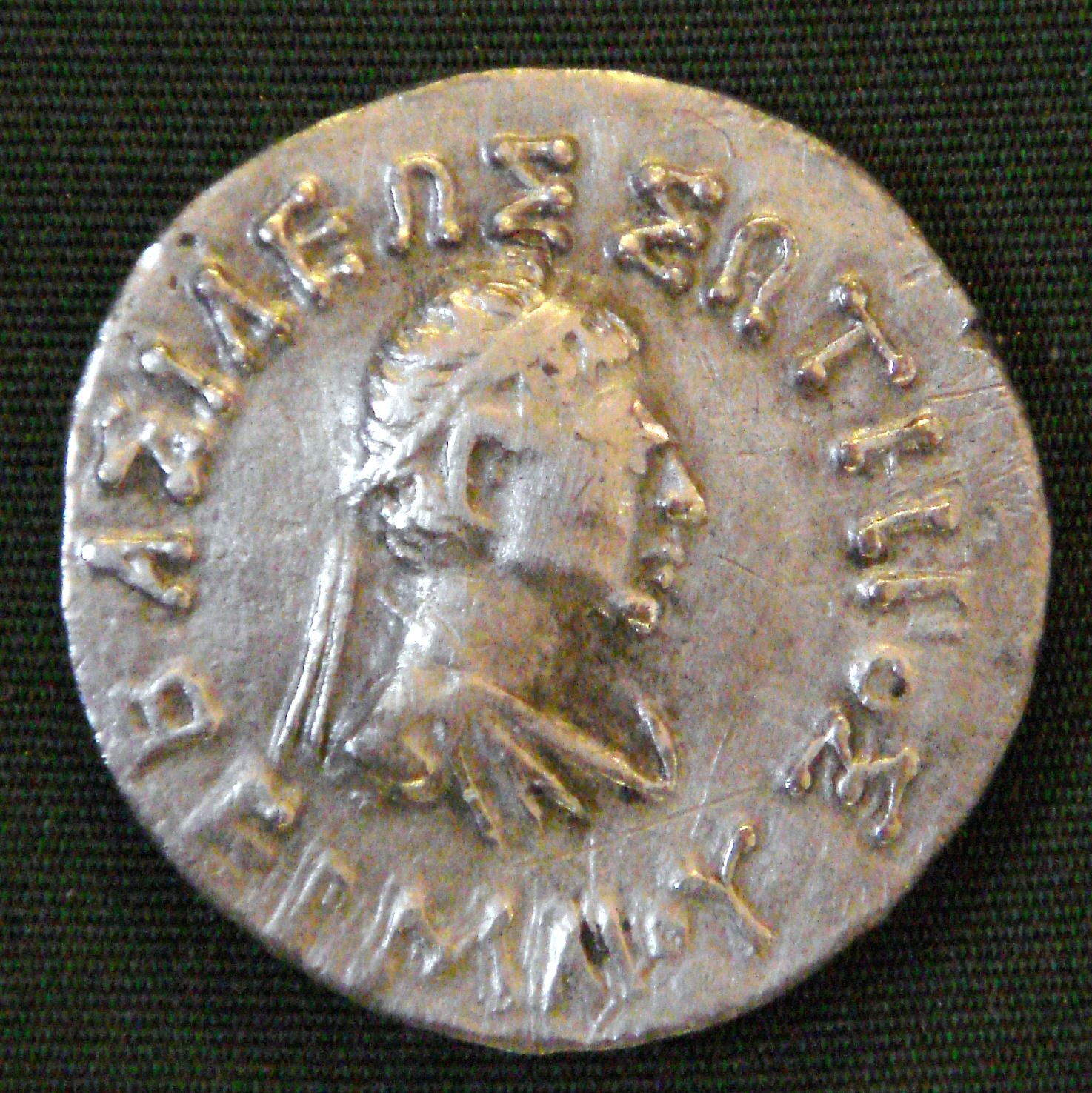 Hermaios coin